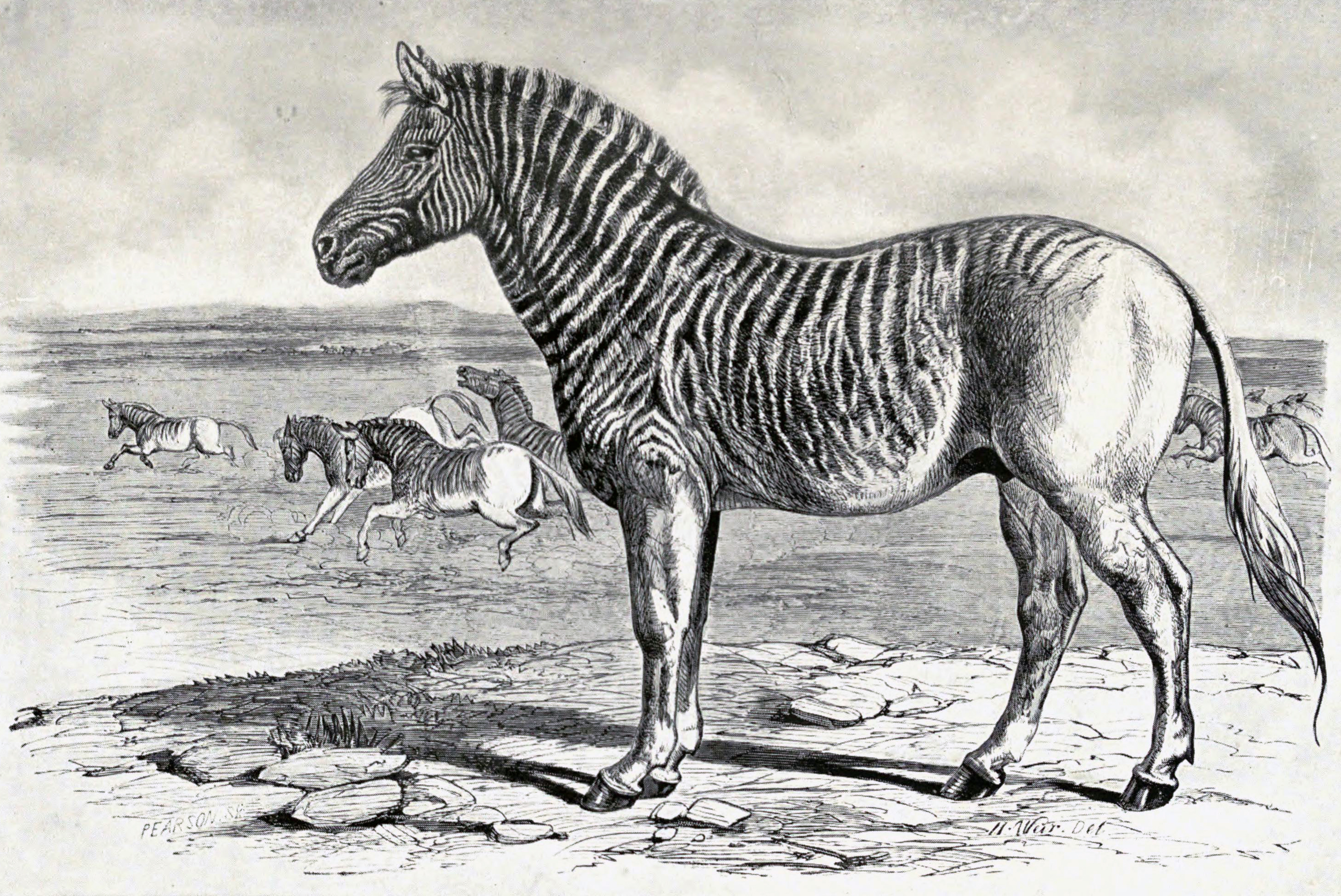 Quagga